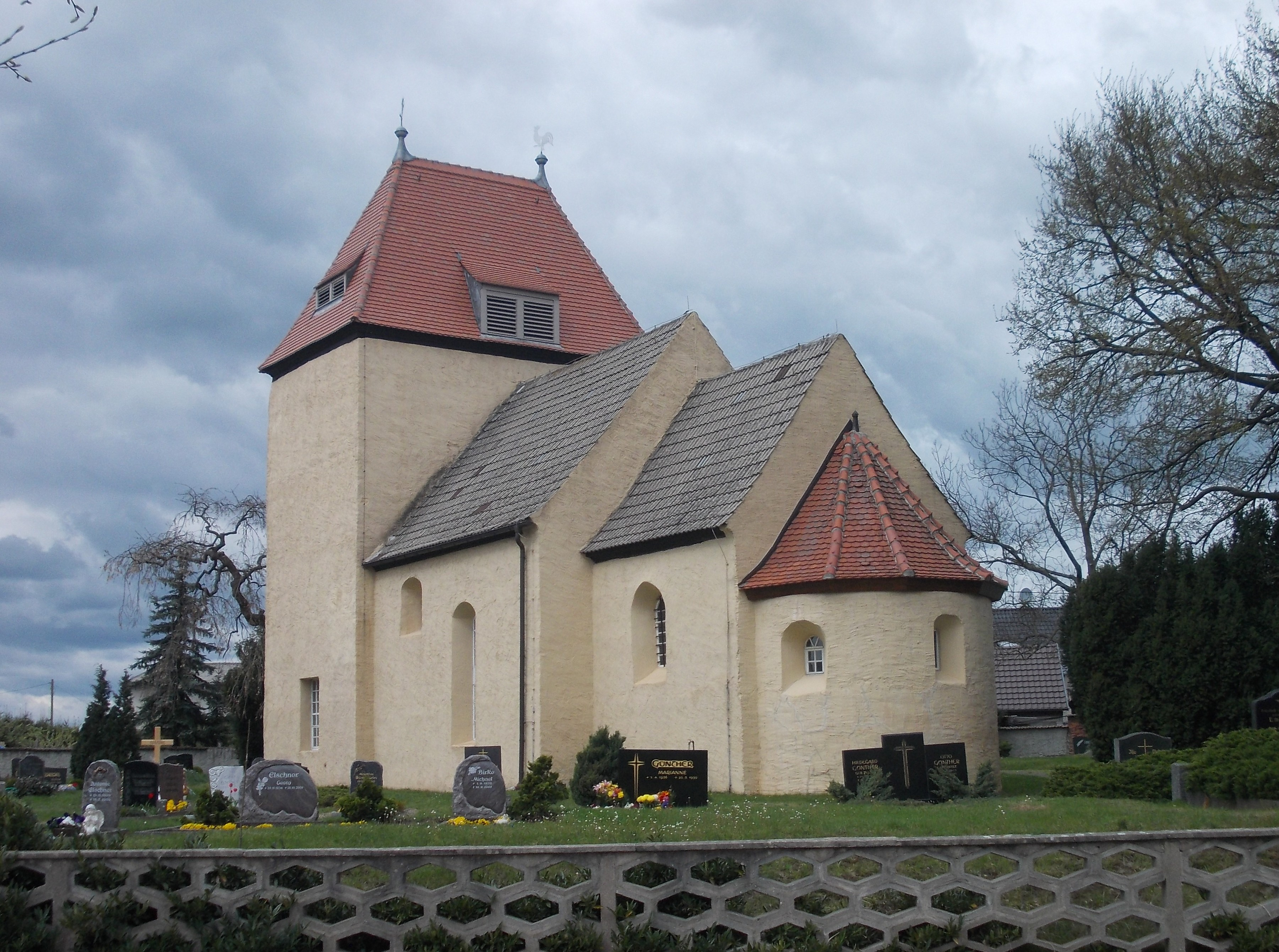 Elsnig church (Nordsachsen district, Saxony)